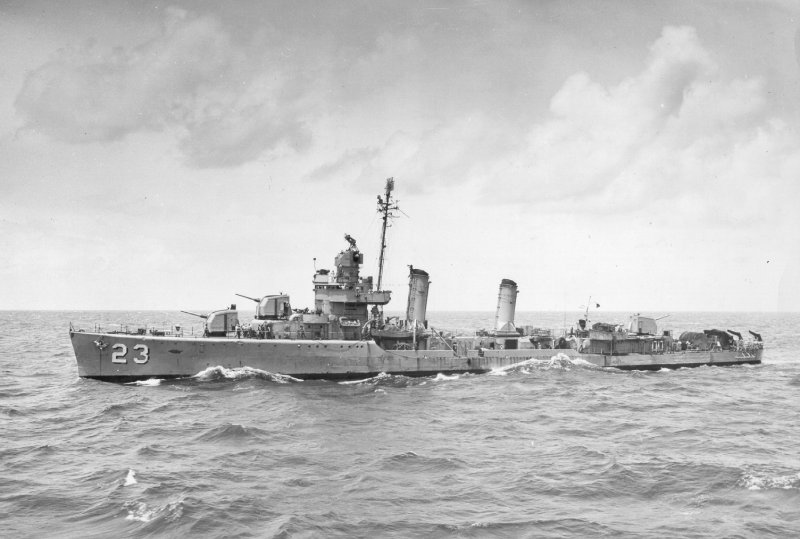 The U.S. Navy destroyer minesweeper USS Macomb (DD-458/DMS-23), circa 1952-1953.